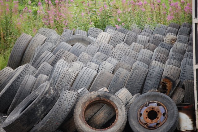 Used tyres No longer required they await incineration or recycling.